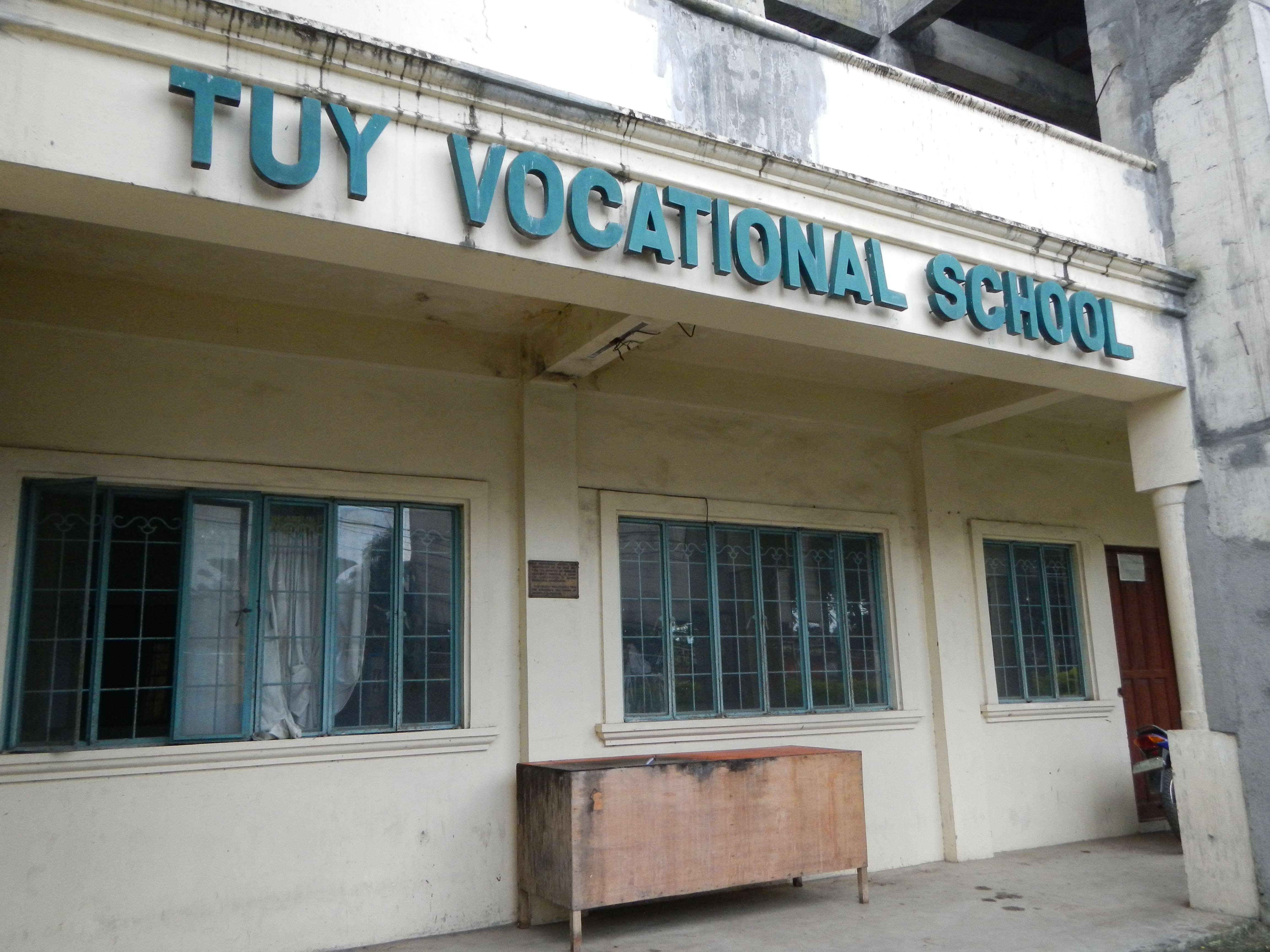 Tuy, Batangas[1] (a third class municipality in the Province of Batangas, Philippines; politically subdivided into 22 barangays; population of 40,246 people in 8,925 households.) - its official and logo from the Sangguniang Bayan's Member name plate. [2] Tuy Municipal Hall Coordinates: 14°1'7"N 120°43'48"E, including the Sangguniang Bayan Session Hall and Offices, Town Proper, Gomez st. cor. Rizal st., Barangay Luna Hall, Municipal Engineer's Office, Tuy Food Plaza, Tuy Public Market, Plaza, Park, Centro, downtown, Town Proper, TMVCMPC, Police Station, Tuy Vocational School, among others.